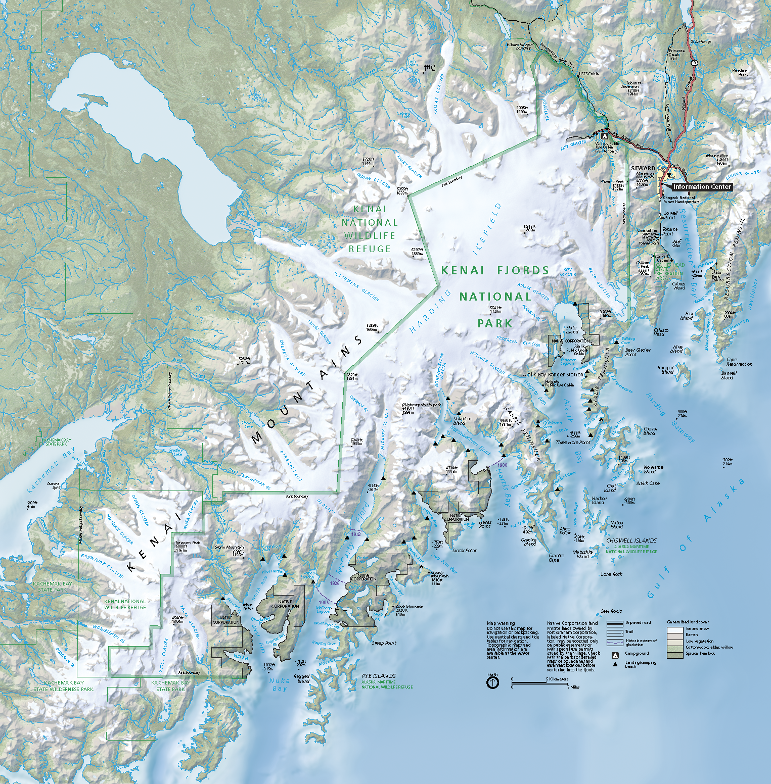 National Park Service map of Kenai Fjords National Park, Alaska, USA